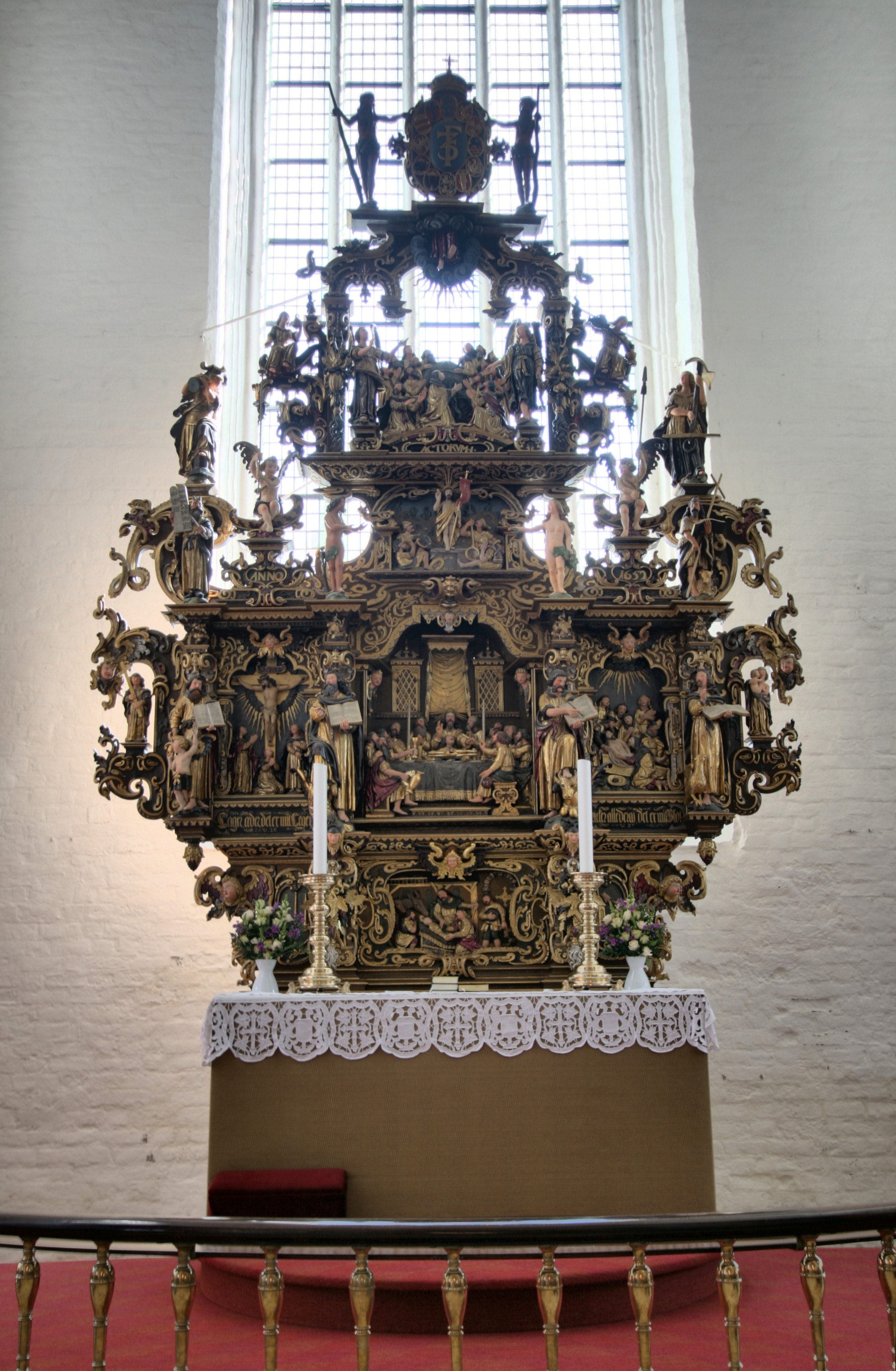 Sankt Nicolai Kirke, Køge. Altar by Lorentz Jørgensen (born before 1644, dead before 1681) Image combined from 5 photos with different exposures (-2 to +2). Stitched with Corel Paint Shop Pro Photo X2.